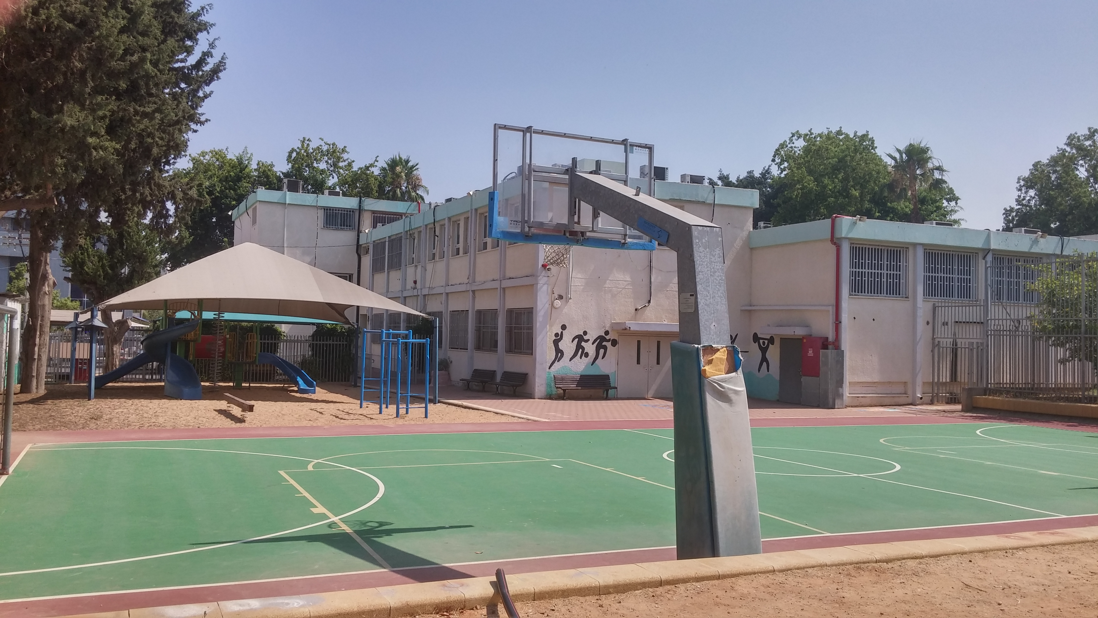 Niv school, Tel Aviv